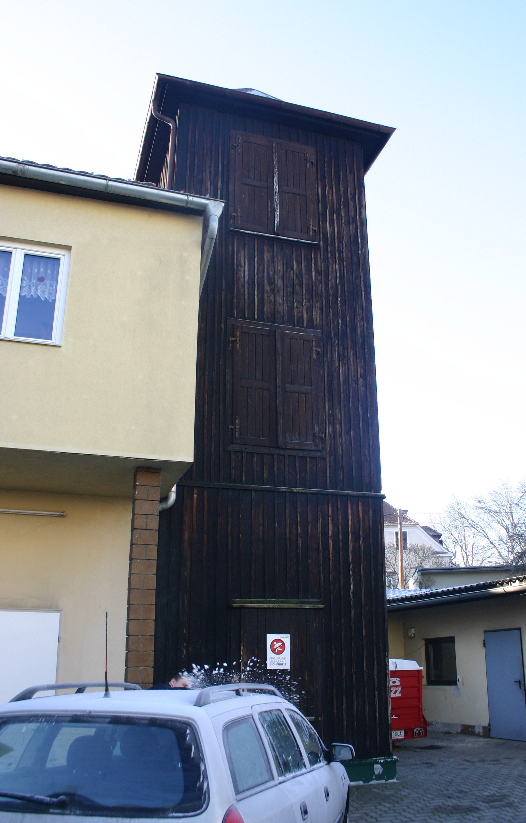 Tower of the fire station Kroisbach in Graz